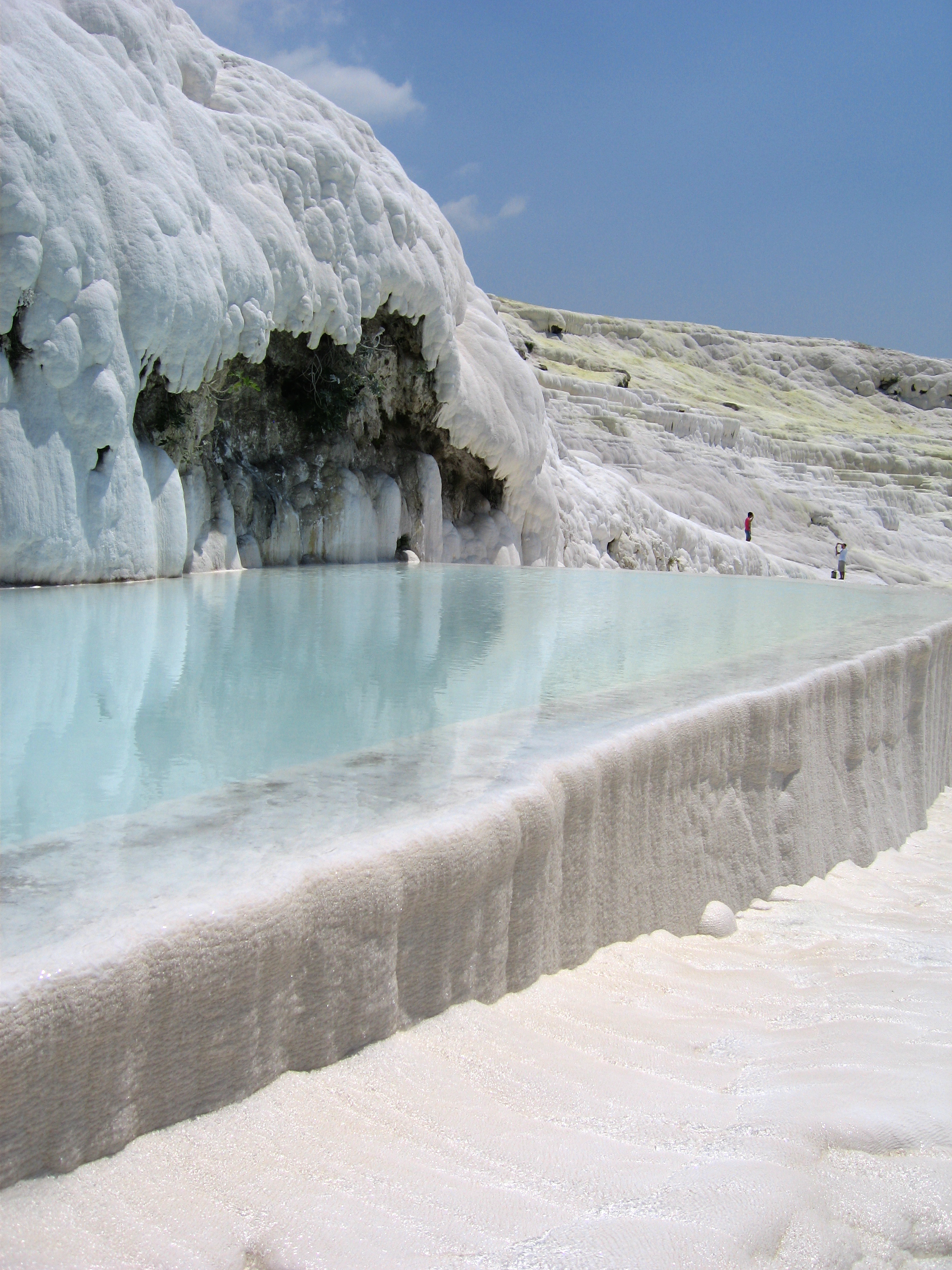 Travertine hot spring formations at Pamukkale, Hieropolis, Turkey